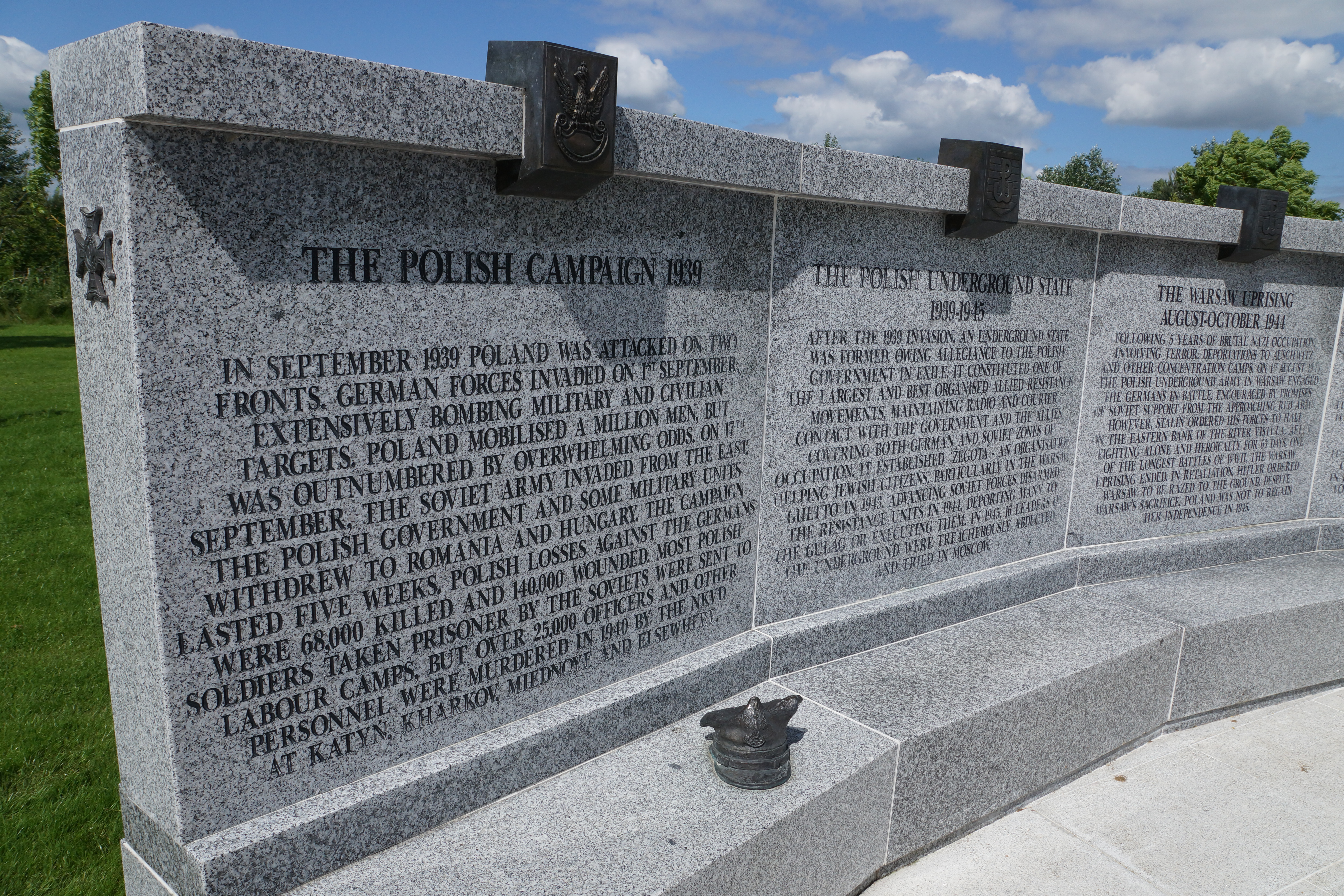 Polish Armed Forces War Memorial at the National Memorial Arboretum, Alrewas, Staffordshire, England.